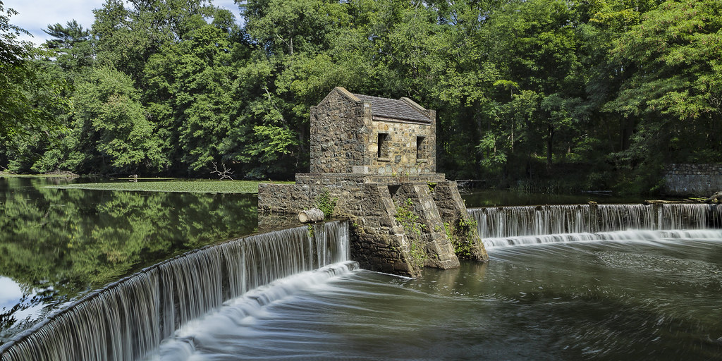 This image is a picture of the Speedwell Park in Morristown, New Jersey. The public park is on land that used to belong to Steven Vail, and the building is one of the remains of the Ironworks there.